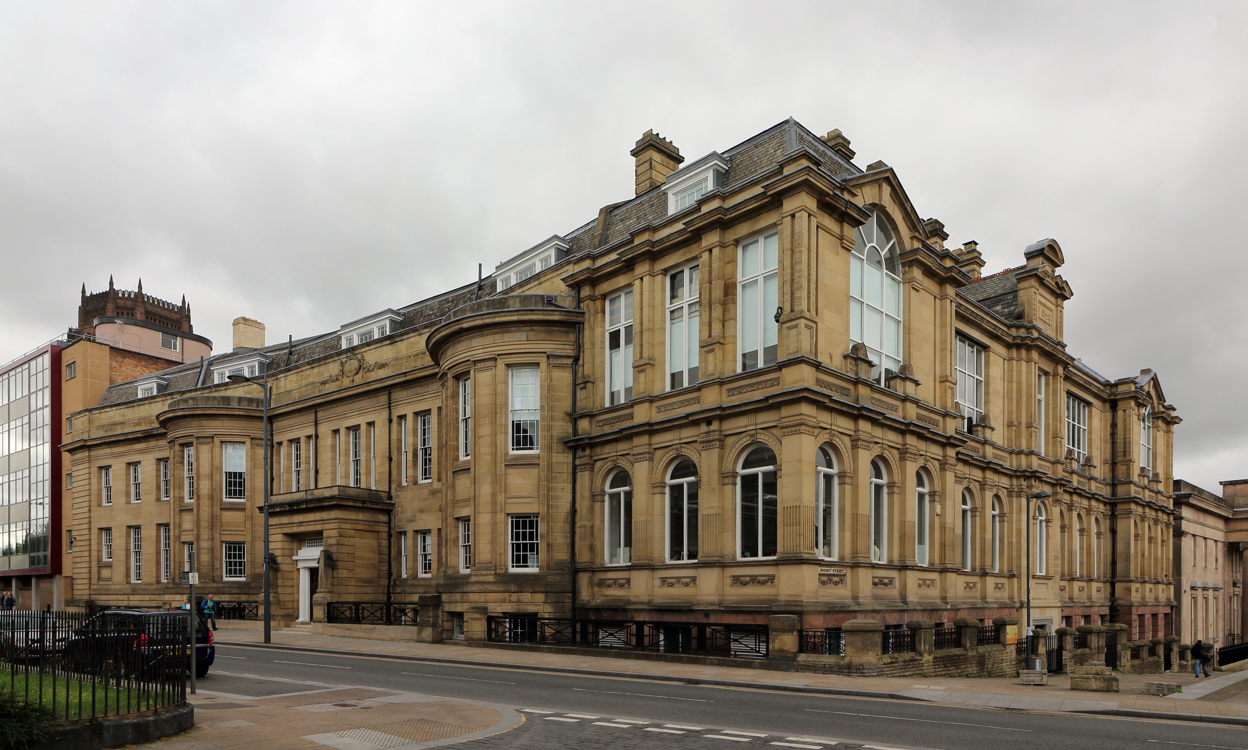 Grade II listed, now part of Liverpool Institute for the Performing Arts. View from Blackburne Place.